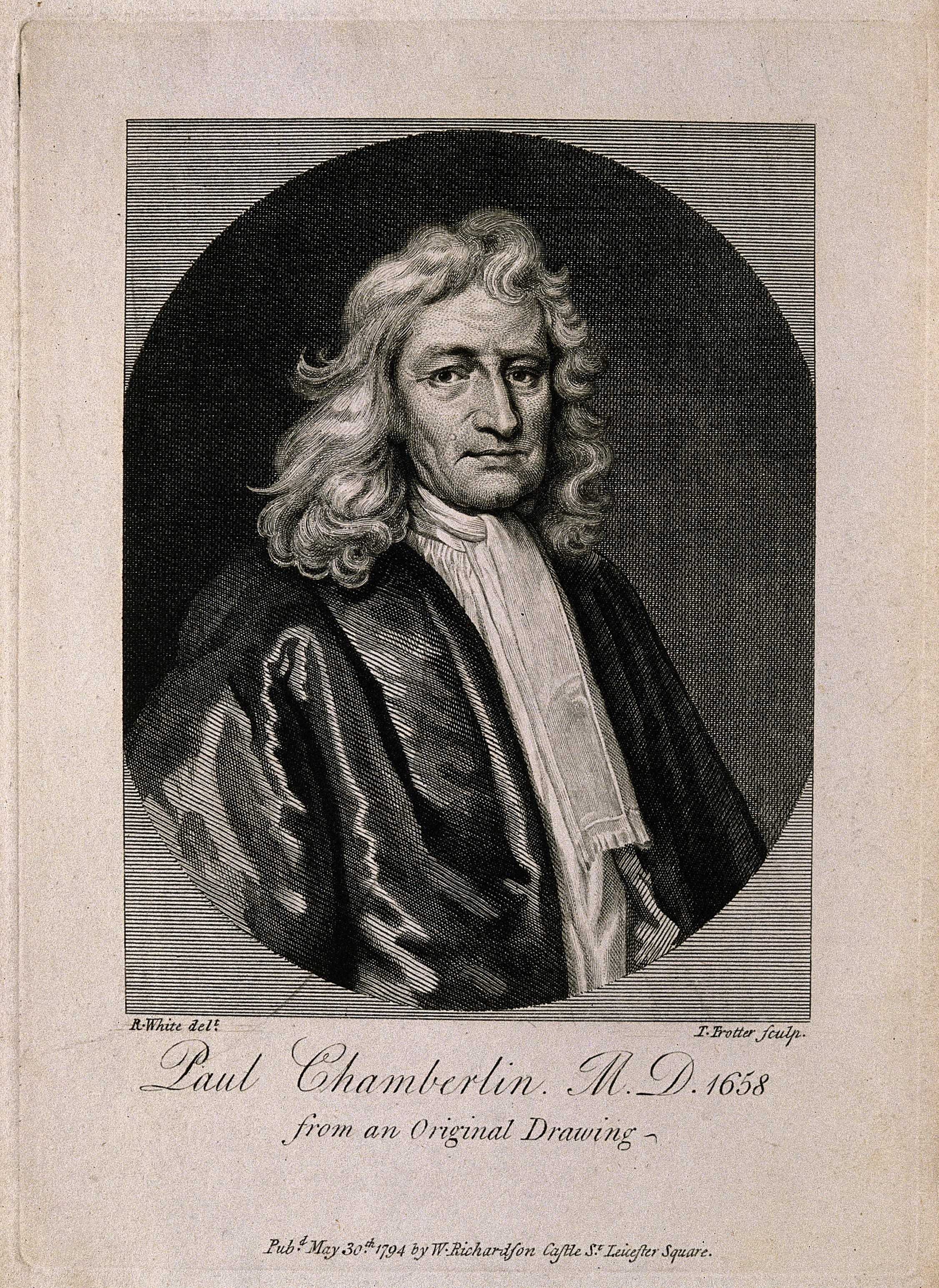 Peter Chamberlen. Line engraving by T. Trotter, 1794, after R. White. Iconographic Collections Keywords: chamberlen, peter, 1601-1683; engravings; Peter Chamberlen; portrait prints; Thomas Trotter; Robert White